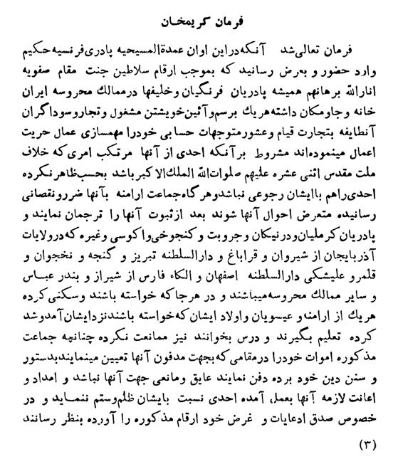 Decree signed by Karim Khan (1750-1779)